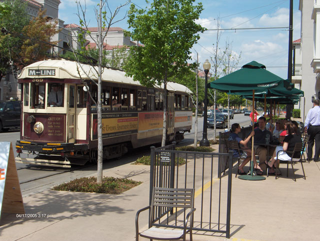 Ex-Melbourne, Australia W2-class streetcar operating on the McKinney Avenue heritage streetcar line in Dallas, Texas.